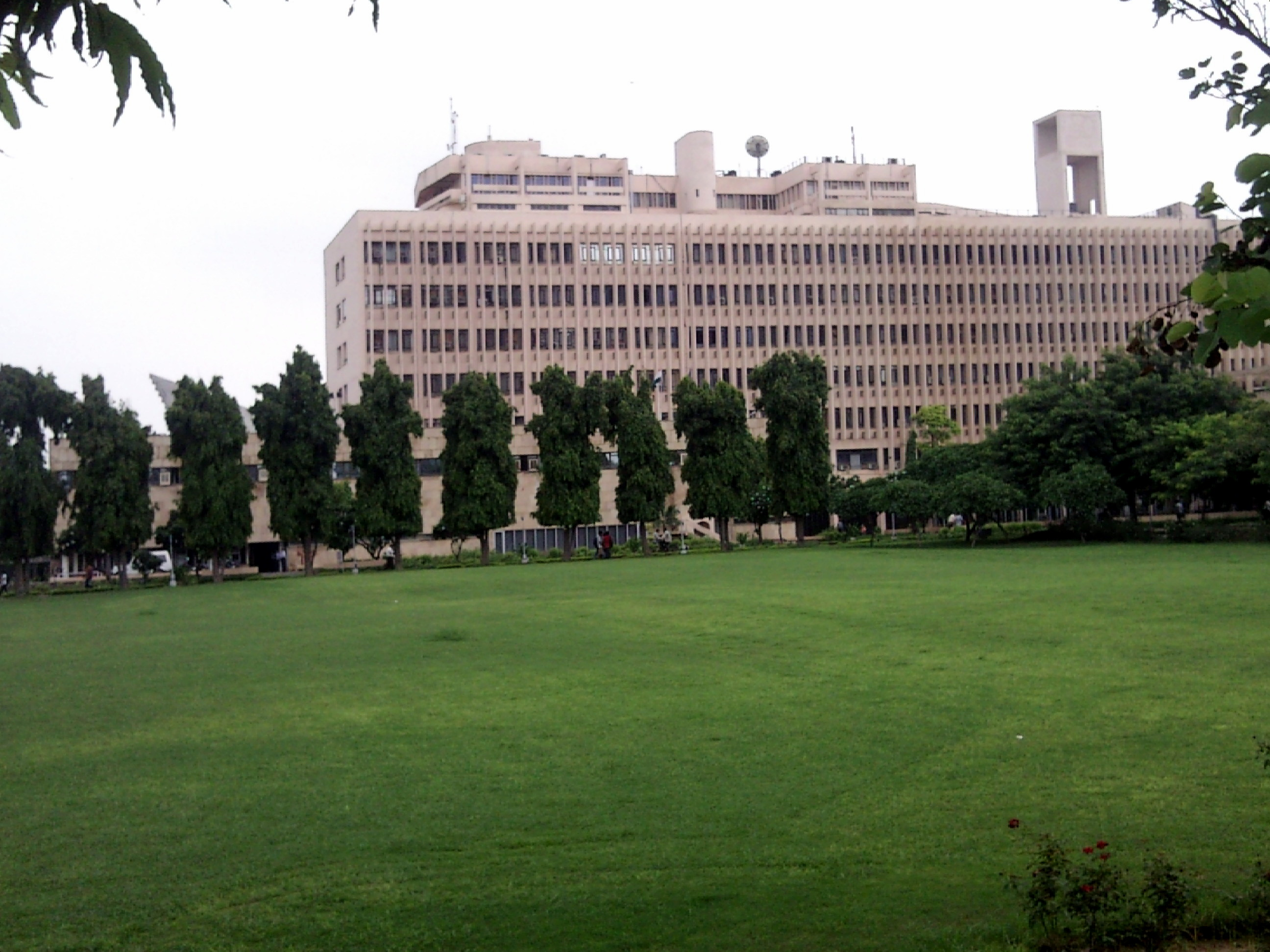 Multi Storey Building (MS) facing the lawns in front of Block-I, IIT Delhi